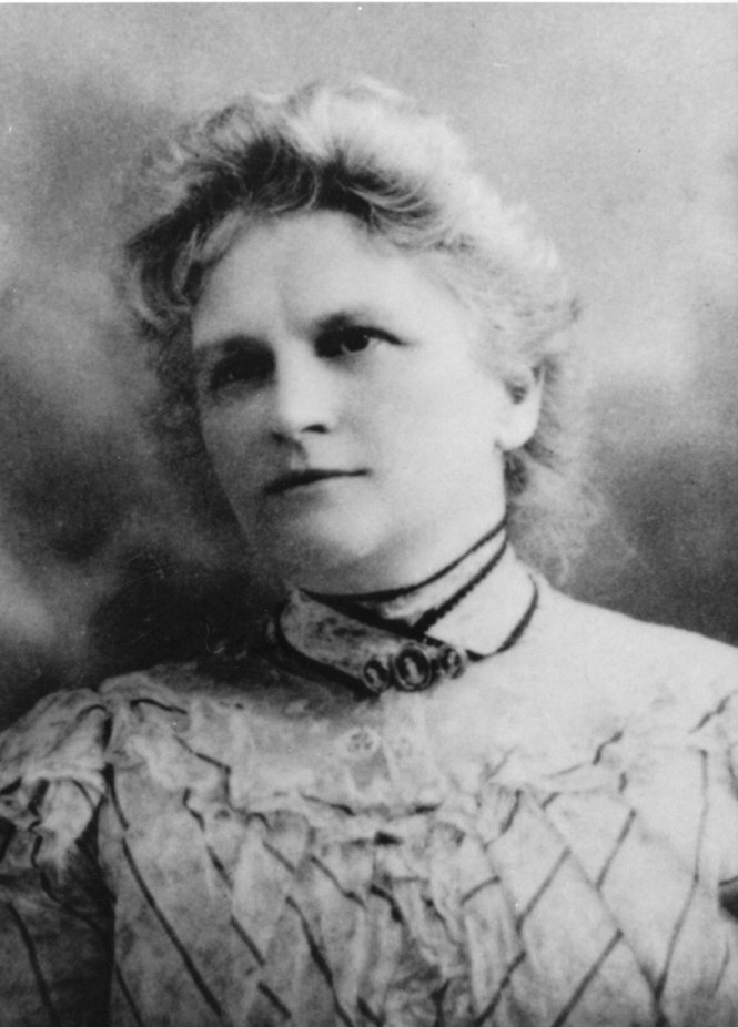 Photoportrait of writer Kate Chopin